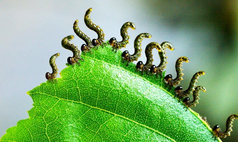 Previous version removed, picture reprocessed -- now it looks a bit better ;-)